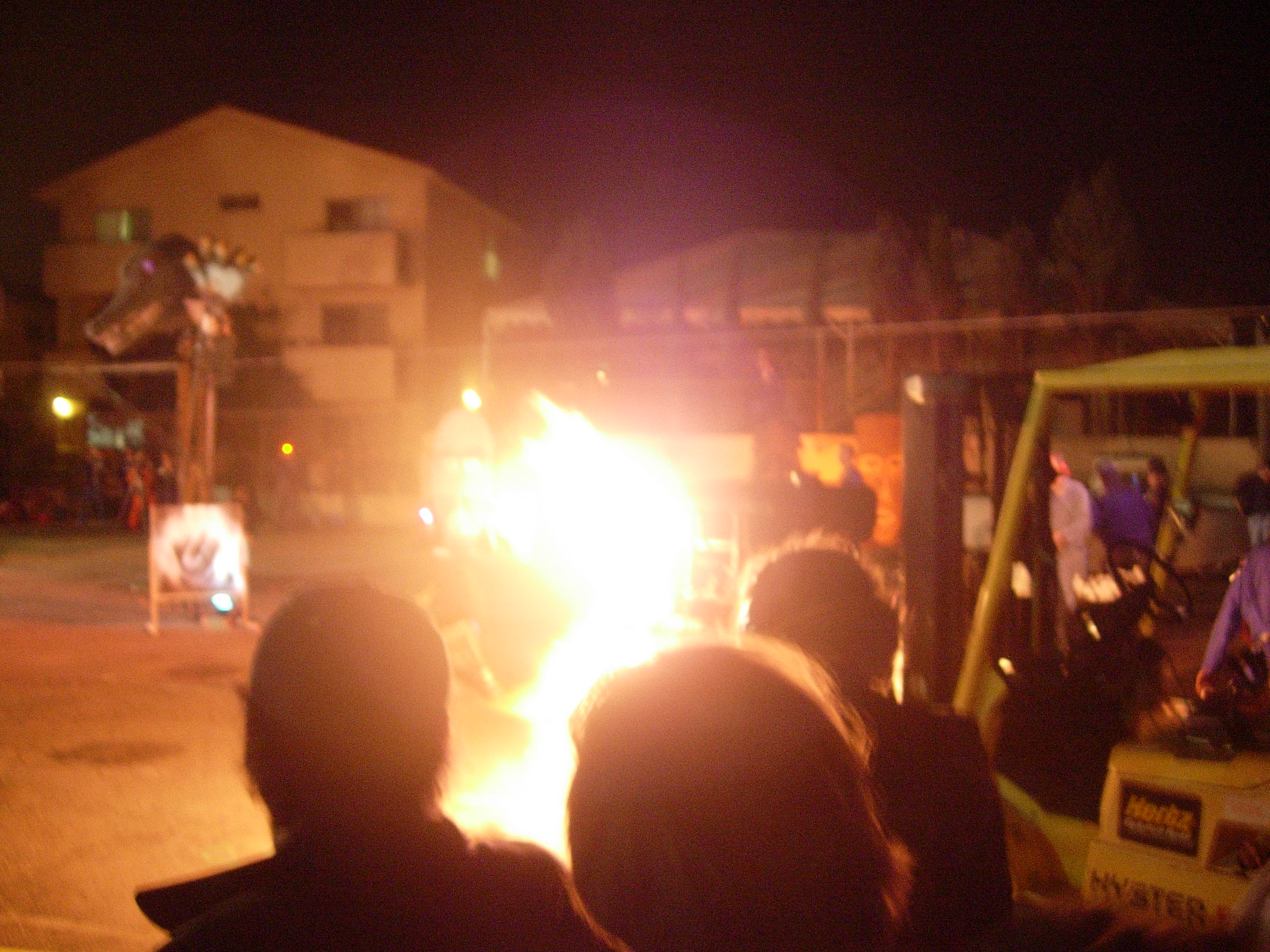 Survival Research Laboratories performance at Fringe Exhibitions in Los Angeles' Chinatown neighborhood